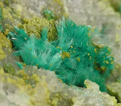 Devilline Locality: Richtárová, Staré Hory, Špania Dolina ore belt, Starohorské Mts, Banská Bystrica Region, Slovakia (Locality at ) Size: 7.0 x 5.2 x 4.3 cm. Devilline specimens from Richtárová are typically different than those from the type locality at Spania Dolina (Herrengrund), as they are generally more acicular in habit, and the Spania Dolina specimens form platy "rosettes". This piece is a beautiful representative specimen of Devilline hosting a beautiful "spray" of emerald-green "needles" of Devilline on matrix.